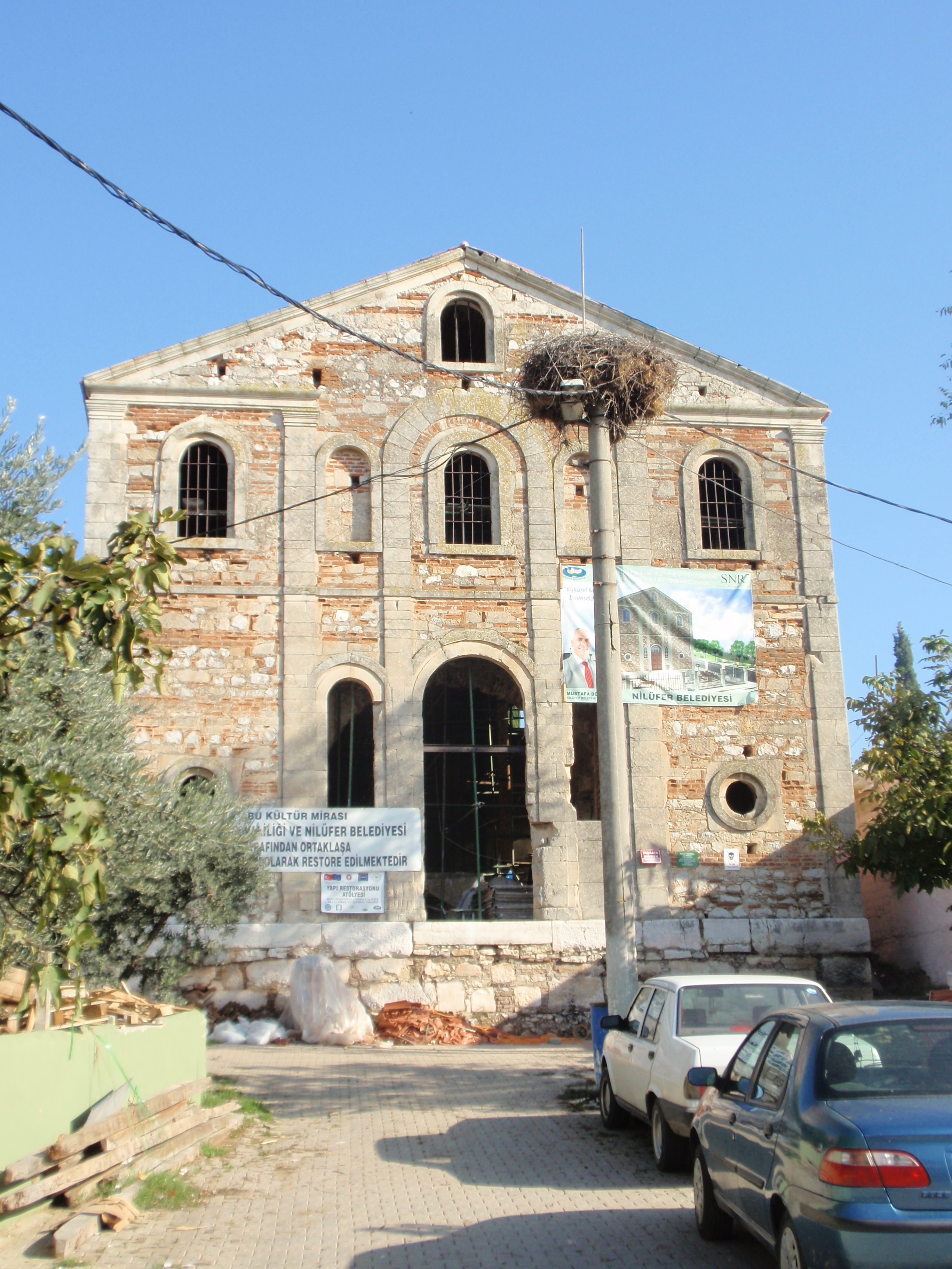 old greek orthodox church, gölyazı-bursa